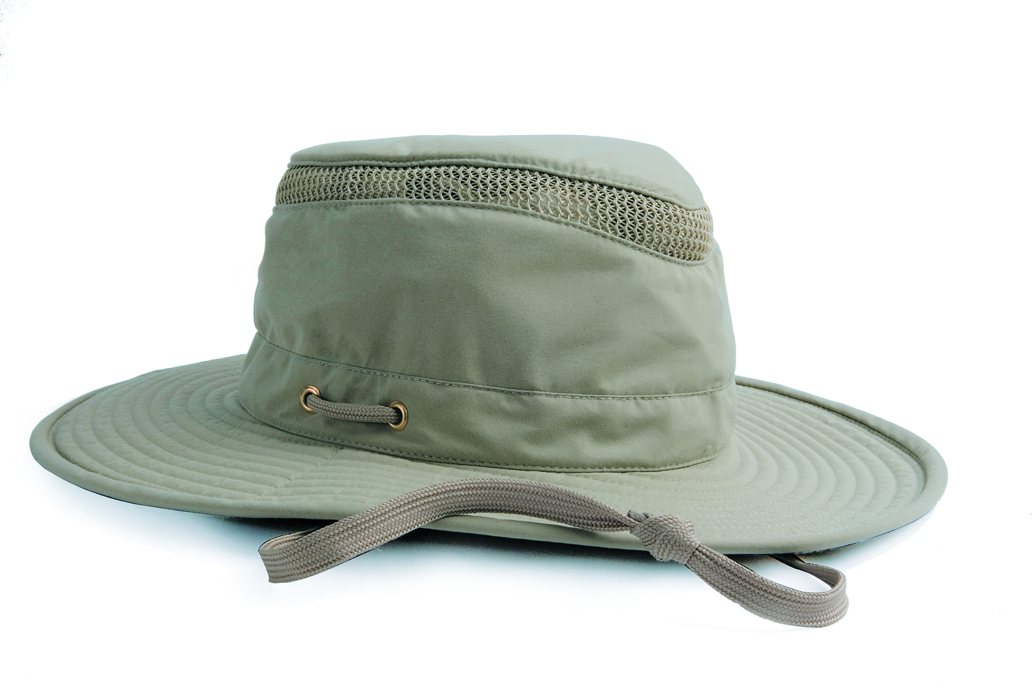 A Tilley hat, designed for hiking and outdoor wear. July 2010